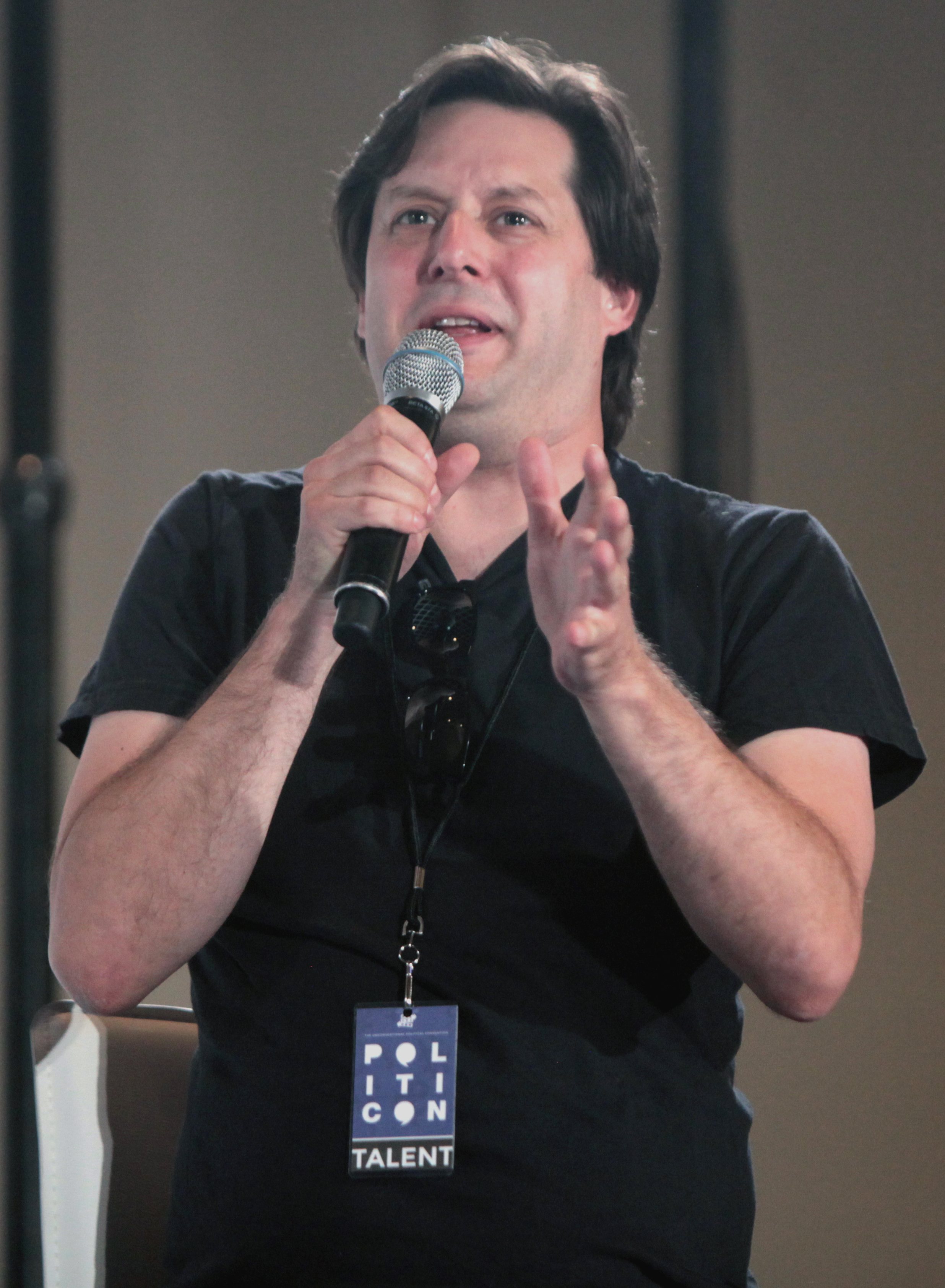 Anthony Atamanuik speaking at Politicon in Pasadena, California.